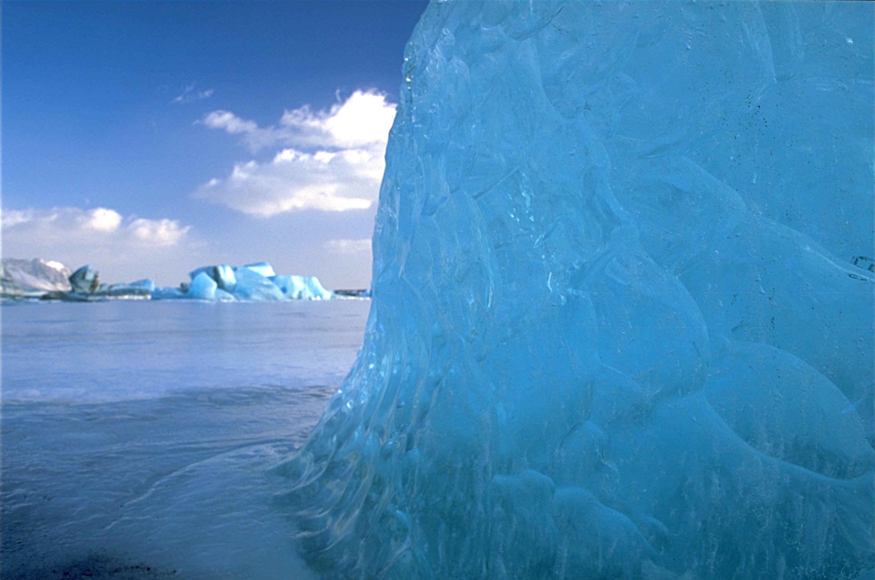 Blue wall of a block of ice on an Iceberg on Jökullsarlon, Iceland Photo was taken using the following technique: Film: Fuji Velvia Lens: 2.8/100 Macro Filter: none Body: Minolta Dynax 7 Support: Manfrotto 190B Image with Information in English Bild mit Informationen auf Deutsch